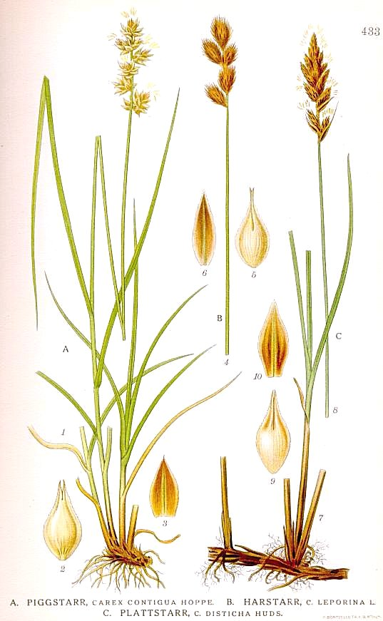 A. Carex spicata Huds., syn. Carex contigua Hoppe. B. Carex leporina L., syn. Carex ovalis Gooden. C. Carex disticha Huds. Original Description A. Piggstarr, Carex contigua Hoppe. B. Harstarr, Carex leporina L. C. Plattstarr, Carex disticha Huds.